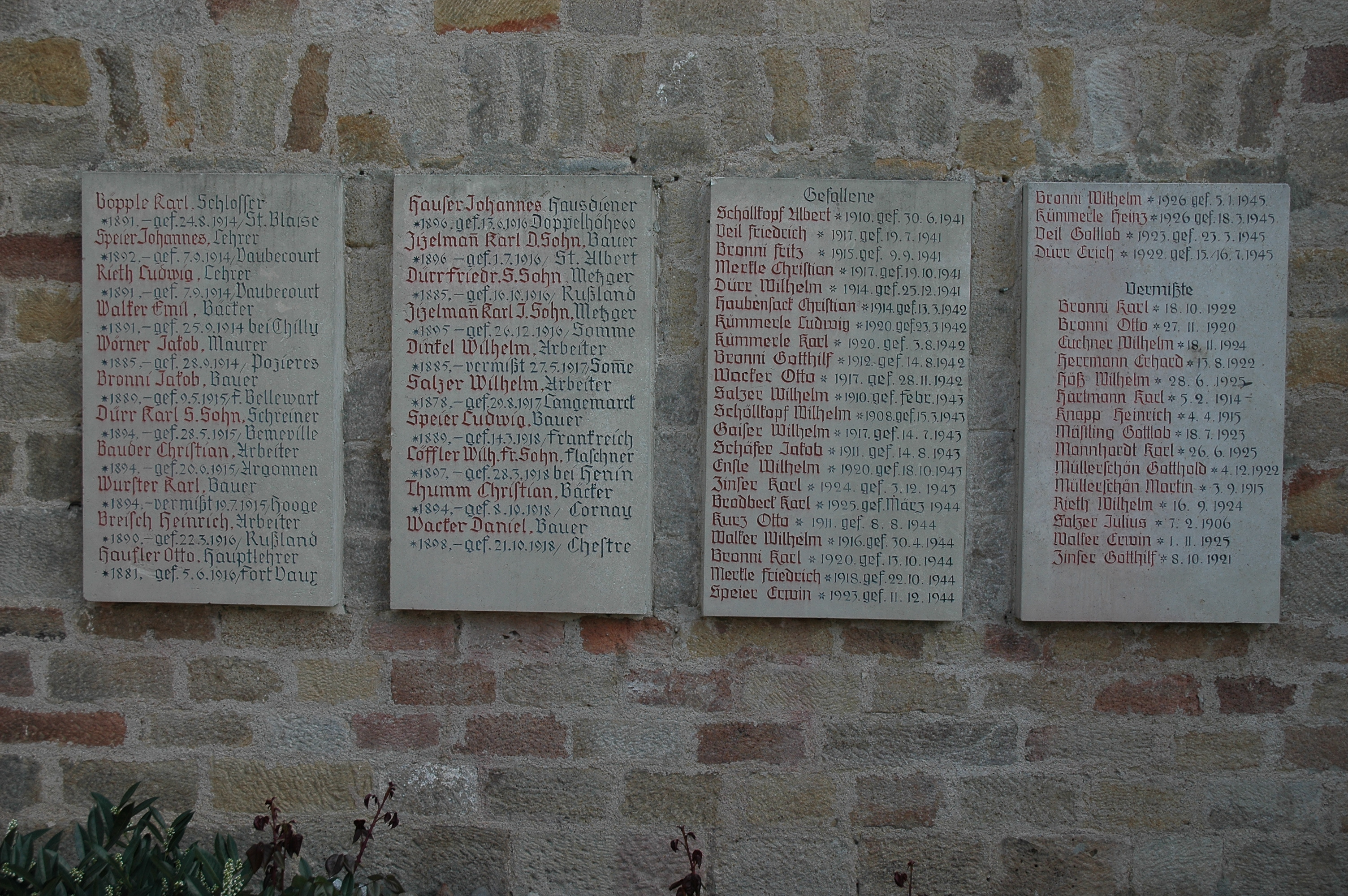 list of world war I and II deads